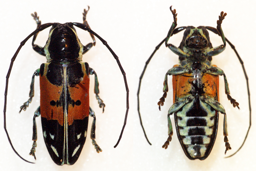 White,1856 Sex: Male Data: 09-2013 - Ebogo - Cameroon Size: ?